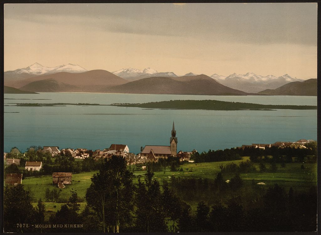 [With churches, Molde, Norway] [between ca. 1890 and ca. 1900]. 1 photomechanical print : photochrom, color. Notes: Title from the Detroit Publishing Co., Catalogue J--foreign section. Detroit, Mich. : Detroit Publishing Company, 1905. Print no. 7072. Forms part of: Landscape and marine views of Norway in the Photochrom print collection. Subjects: Norway--Molde. Format: Photochrom prints--Color--1890-1900. Repository: Library of Congress, Prints and Photographs Division, Washington, D.C. 20540 USA, Part Of: Landscape and marine views of Norway (DLC) 2001699563 More information about the Photochrom Print Collection is available at Persistent URL: Call Number: LOT 13432, no. 084 [item]